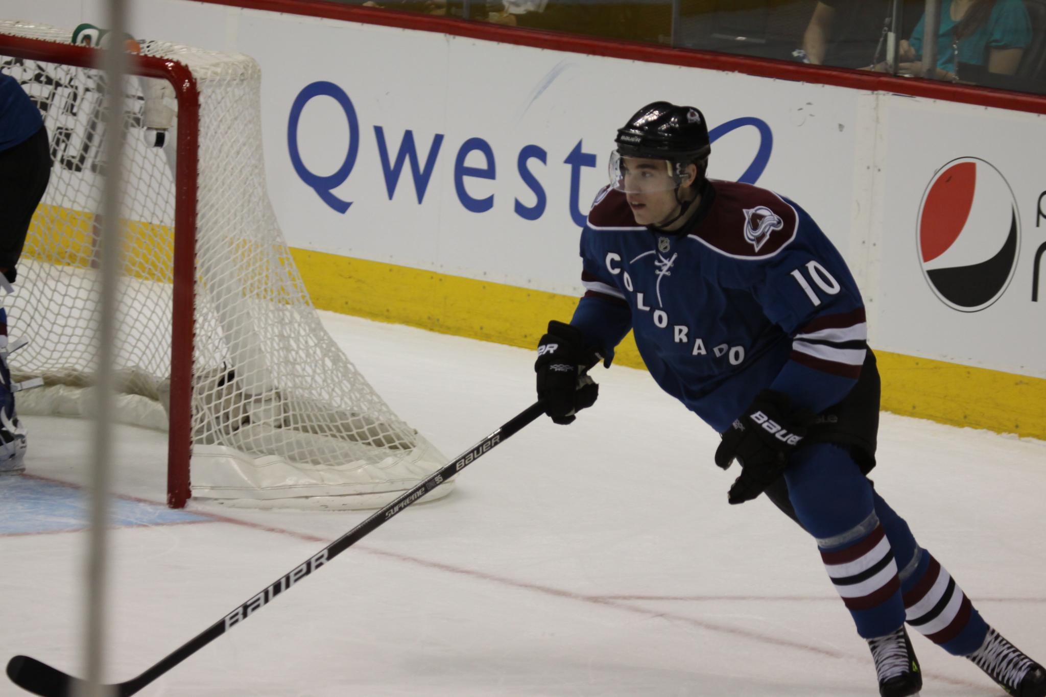 Edmonton Oilers at Colorado Avalanche, 2/6/10 @ Pepsi Center, Denver CO USA